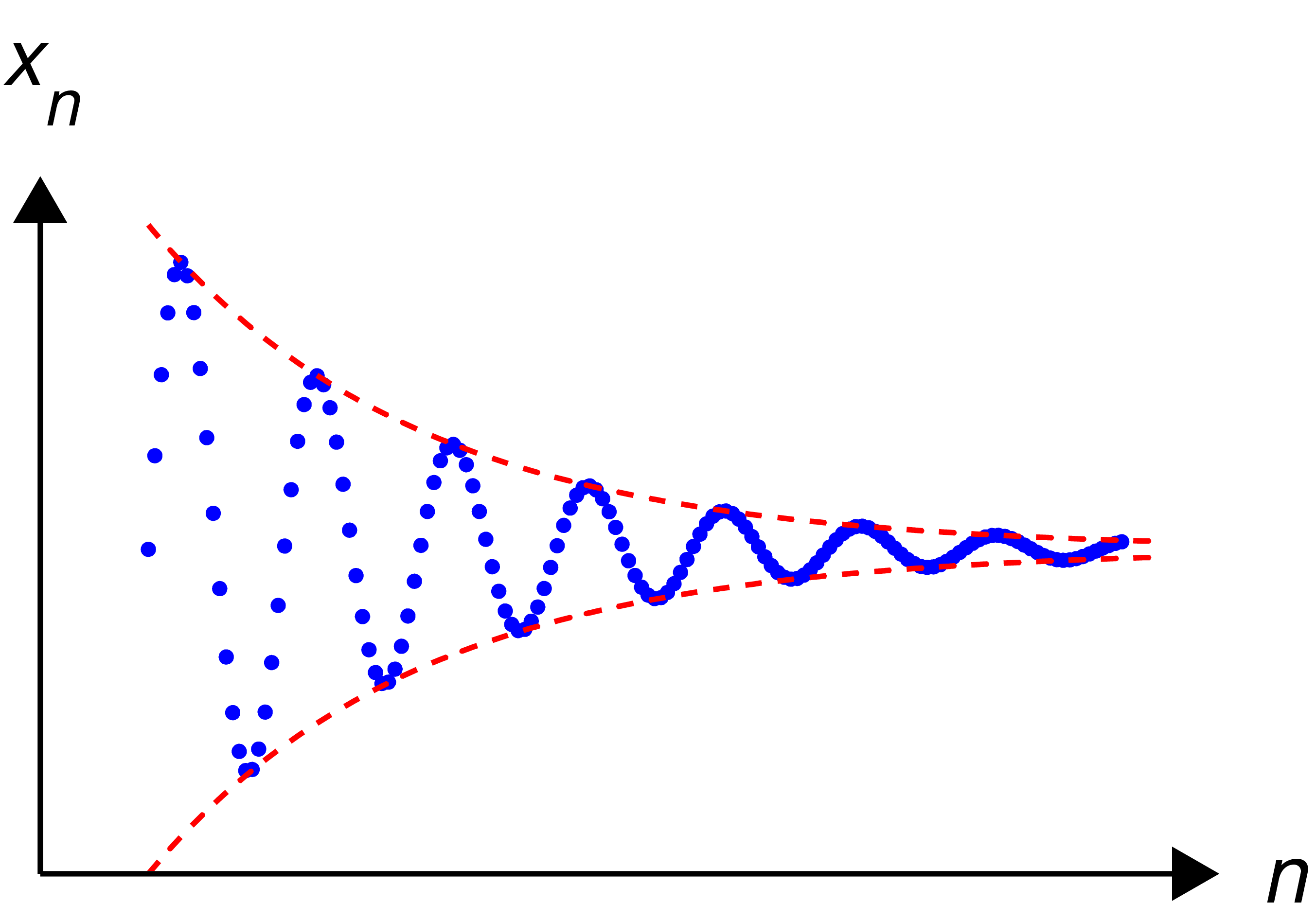 Illustration of Cauchy sequence. This diagram was created with MATLAB.